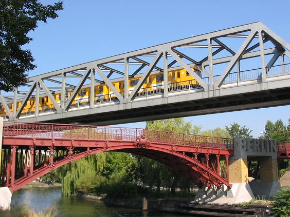 U-Bahn Berlin, a train over the Landwehrkanal (Line U1)